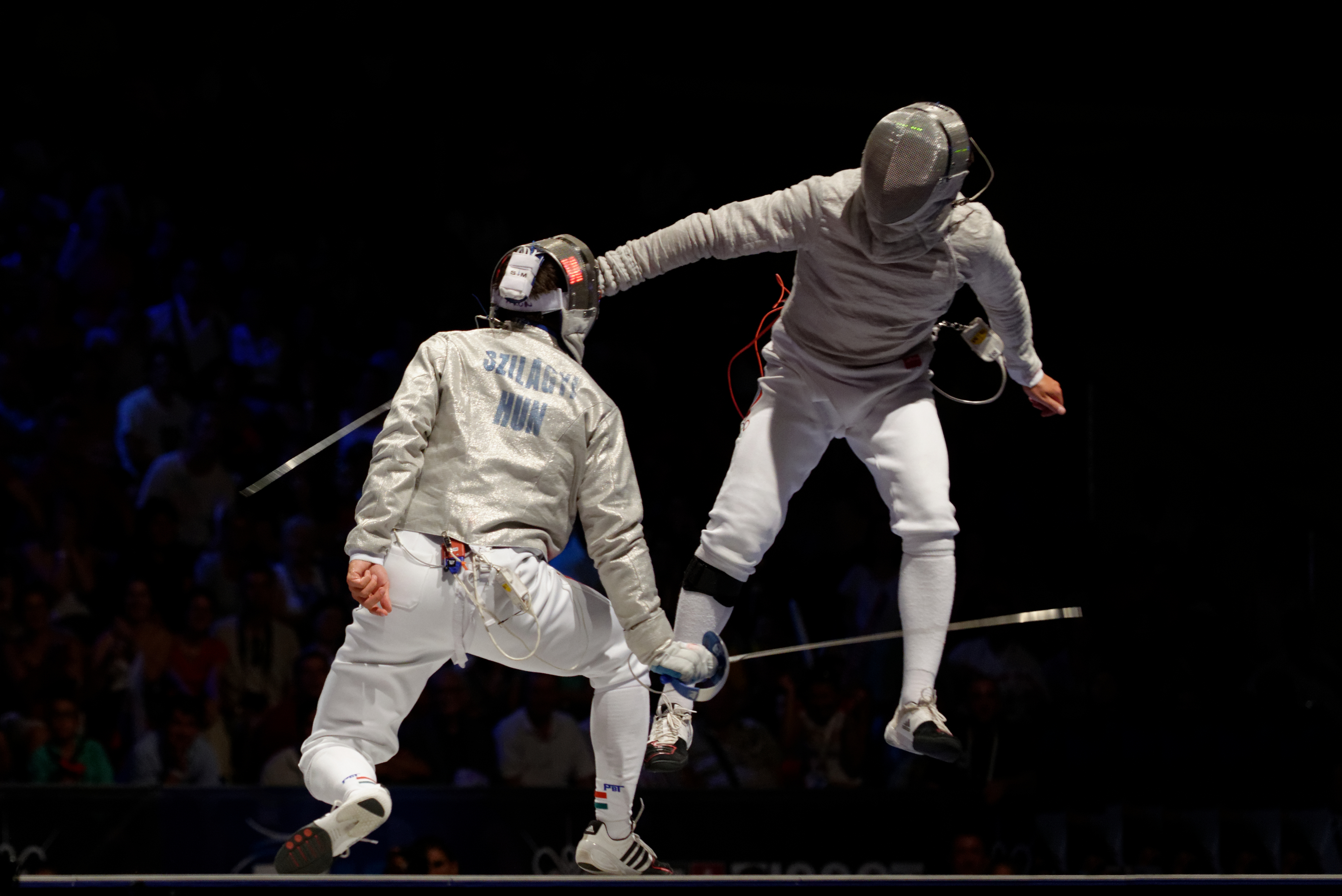 Hungary's Áron Szilágyi (L) fences against Russia's Nikolay Kovalev (R) in the men's sabre semi-finals of the 2013 World Fencing Championships 2013 at Syma Hall in Budapest, 10 August 2013.